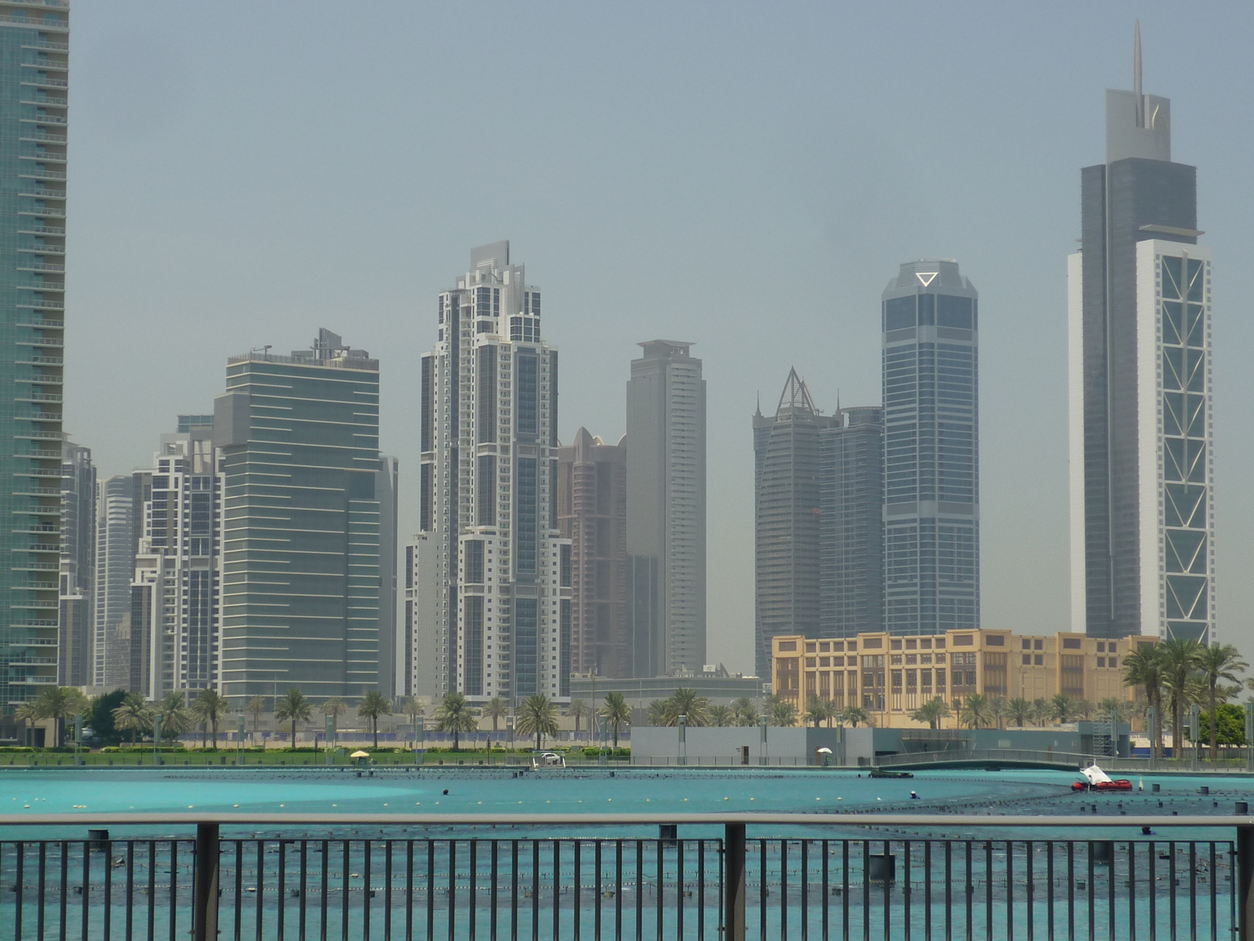 Downtown Burj Khalifa